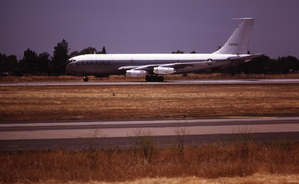 PictionID:43724388 - Title:Boeing RC-135A 63-8061 22BW McClellan AFB 3Jun79 [Peter B.Lewis via RJF] - Catalog:17 - Filename:17.S_000249.tif - -----Image from the René Francillon Photo Archive. This images is from a 35mm slide. Having had his interest in aviation sparked by being at the receiving end of B-24s bombing occupied France when he was 7-yr old, René Francillon turned aviation into both his vocation and avocation. Most of his professional career was in the United States, working for major aircraft manufacturers and airport planning/design companies. All along, he kept developing a second career as an aviation historian, an activity that led him to author more than 50 books and 400 articles published in the United States, the United Kingdom, France, and elsewhere. Far from “hanging on his spurs,” he plans to remain active as an author well into his eighties.-------PLEASE TAG this image with any information you know about it, so that we can permanently store this data with the original image file in our Digital Asset Management System.--------------SOURCE INSTITUTION: San Diego Air and Space Museum Archive